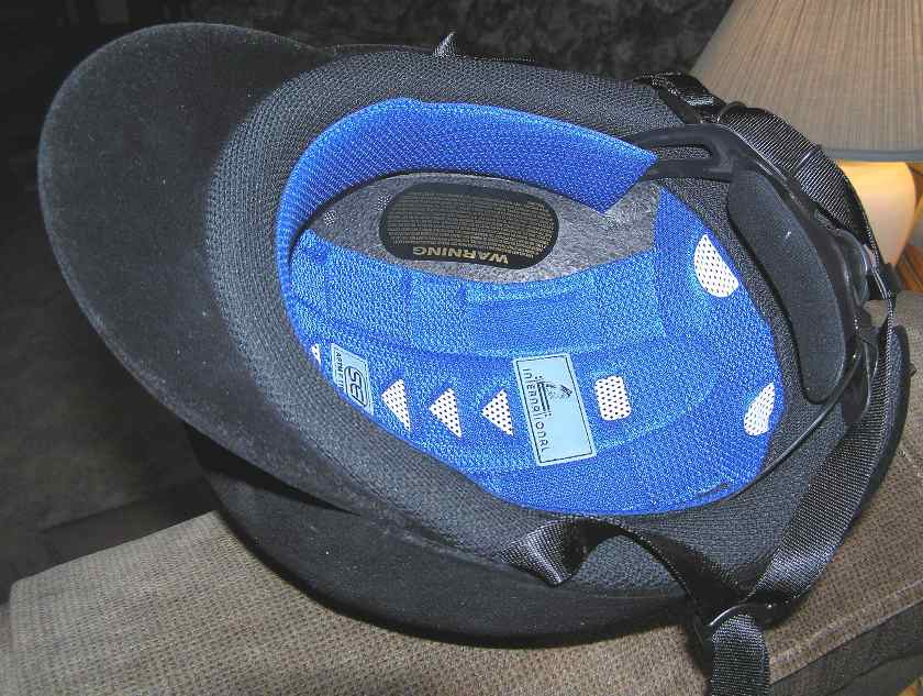 Inside of an ASTM/SEI approved safety Helmet for riding horses